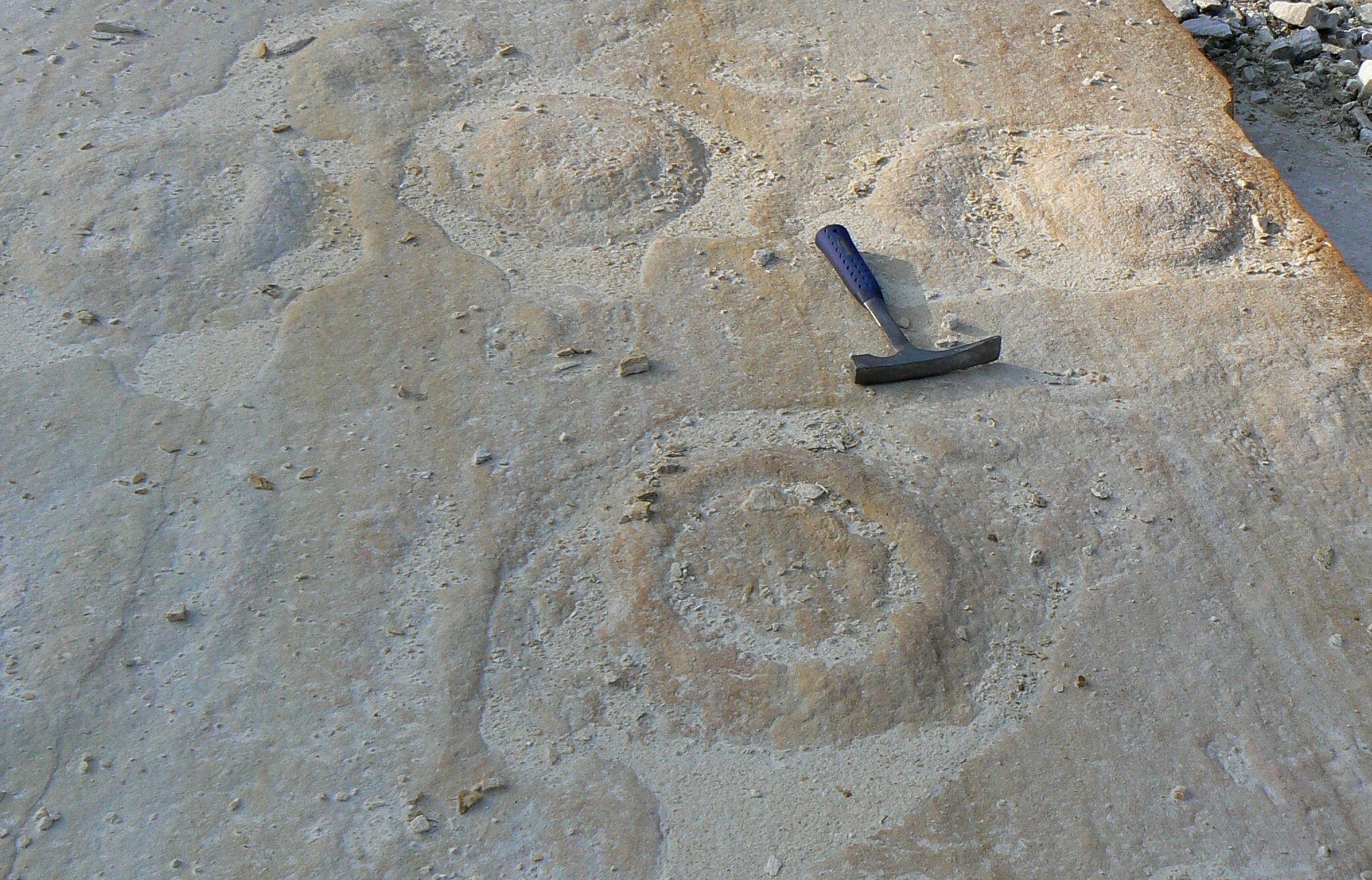 Quarry "U Devíti Křížů" near Červený Kostelec in Náchod District (Czech Republic). Triassic, Bohdašín Formation - sandstone volcanoes